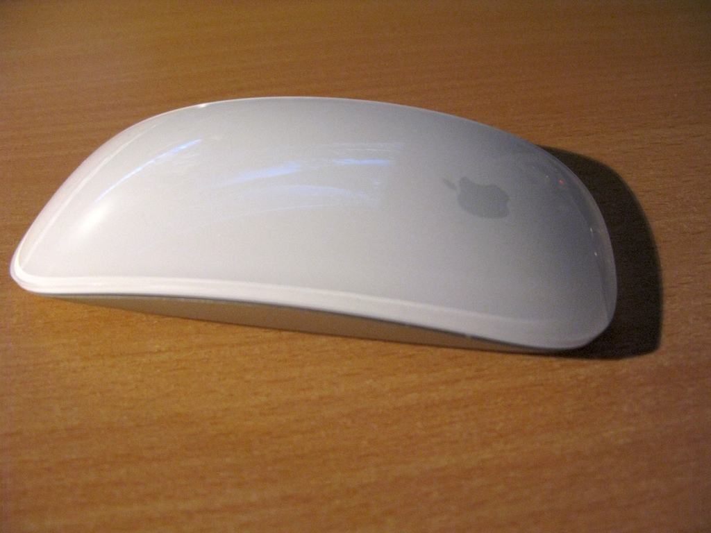 Photo of the Apple Mighty Mouse